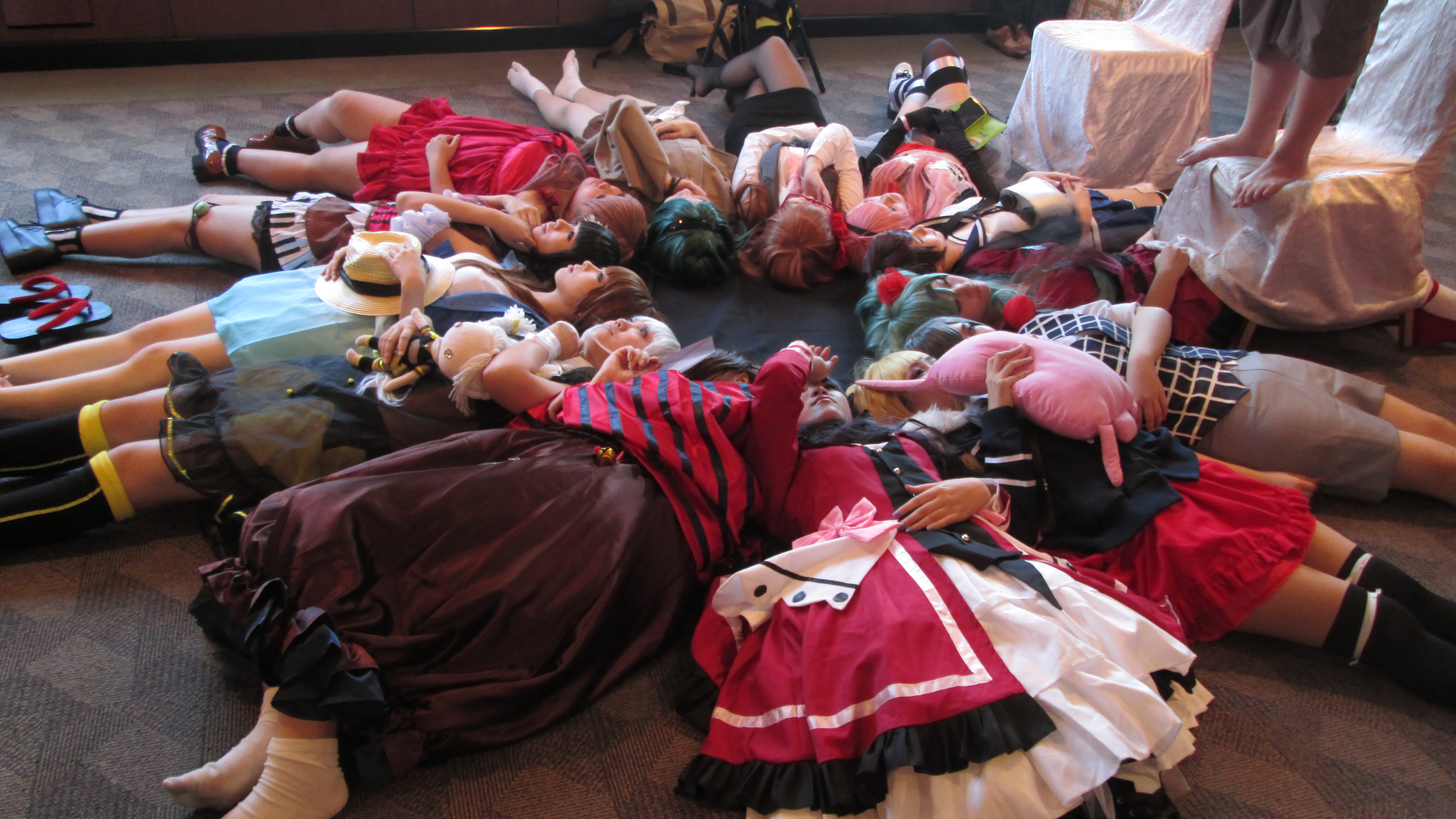 Spot something different from the rest of this album?